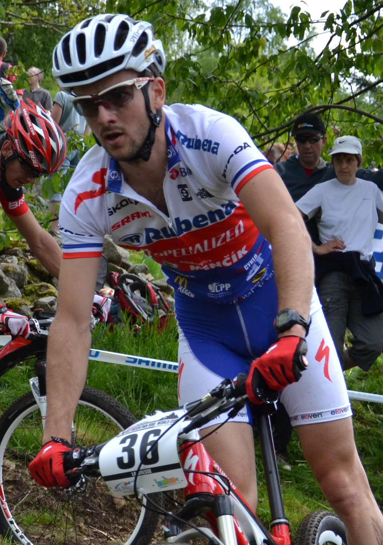 Jan Škarnitzl